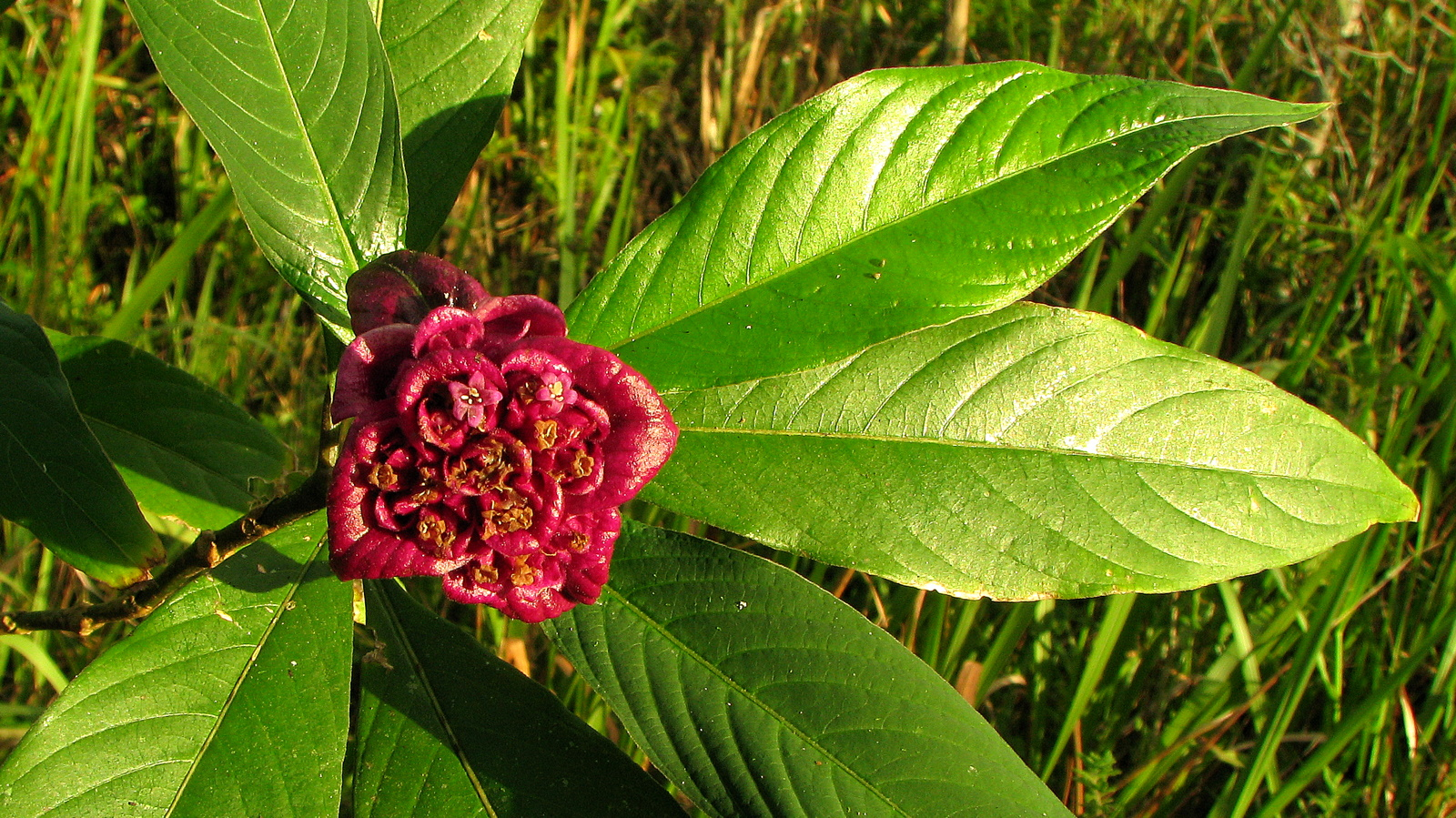 Psychotria bracteocardia (DC.) Müll.Arg., Rubiaceae, Atlantic forest, northeastern Bahia, Brazil Shrub to 2 m. Popovkin & Mendes 590, 1254 (HUEFS).